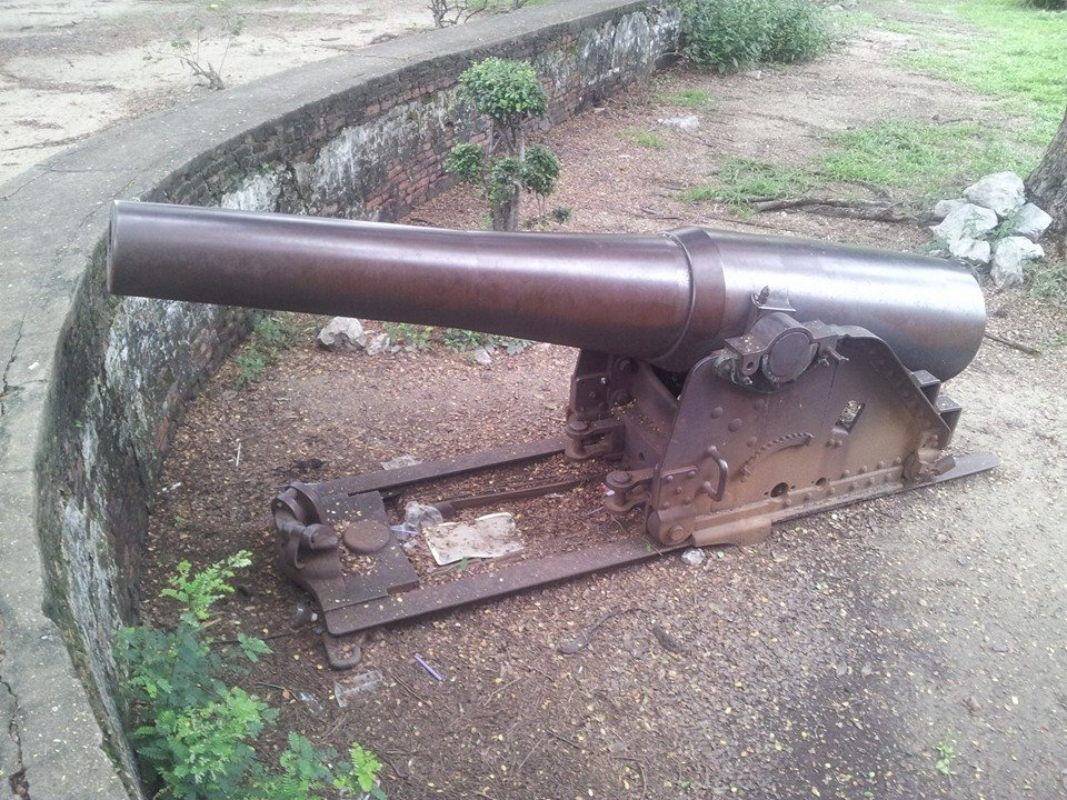 ป้อมแผลงไฟฟ้า